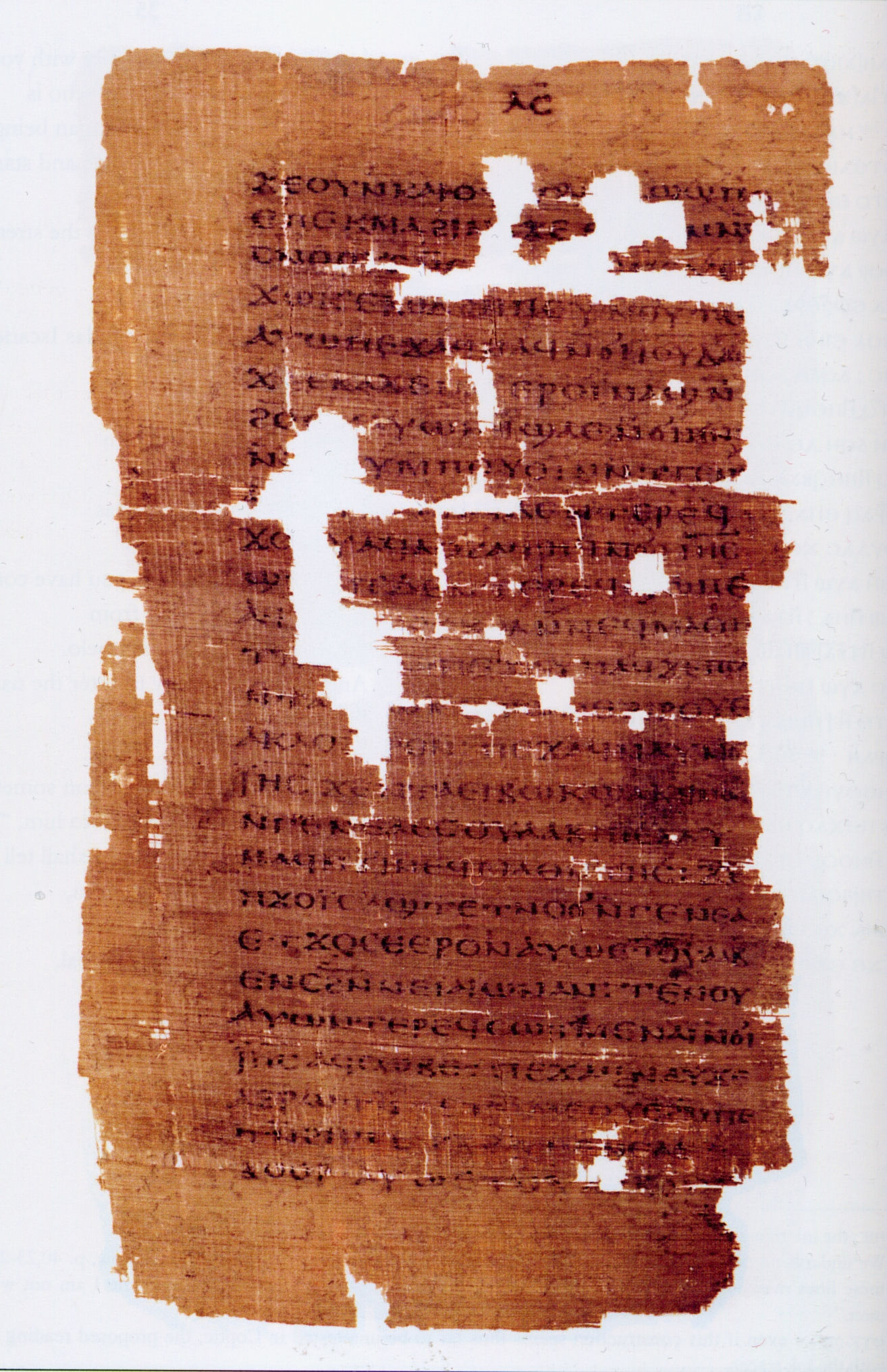 Page from Codex Tchacos.